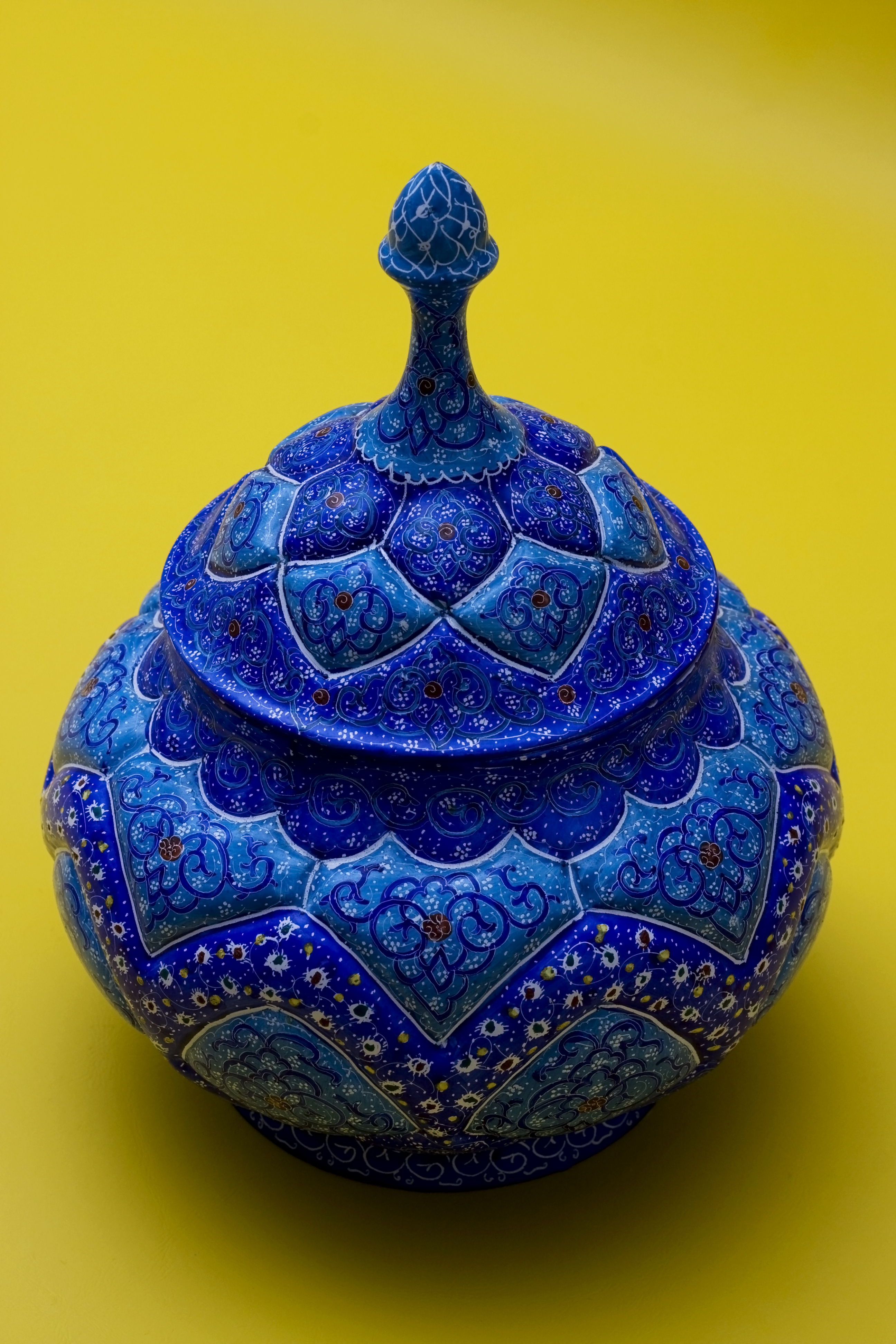 "In my recent trip to Iran, I picked up this hand crafted, hand painted (unknown artist) in Esfahan(Isfahan), The Iranian city of craftsmanship. (More info on the city) From my series of Stock/Product photography. Strobist: Single 430EXII bounced off the wall from left hand side." — from Flickr description.